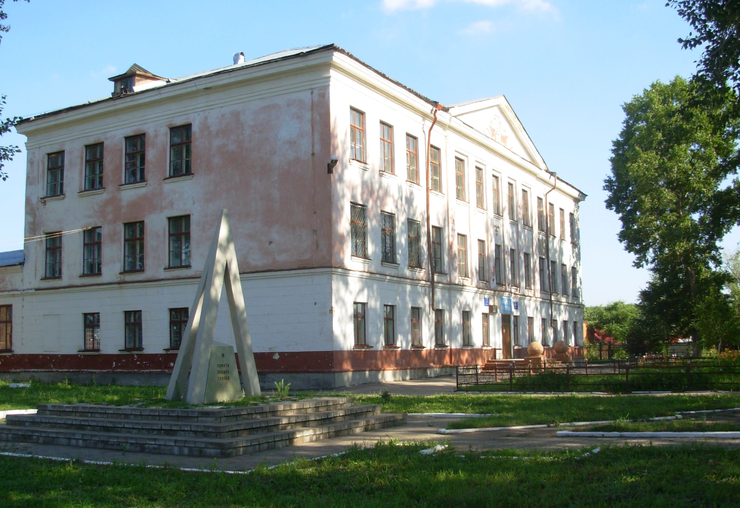 school